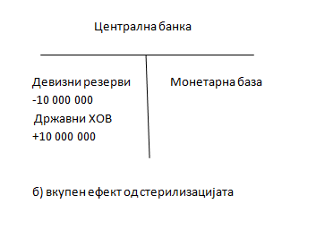 The effects fo sterilization of central bank's FX intervenion